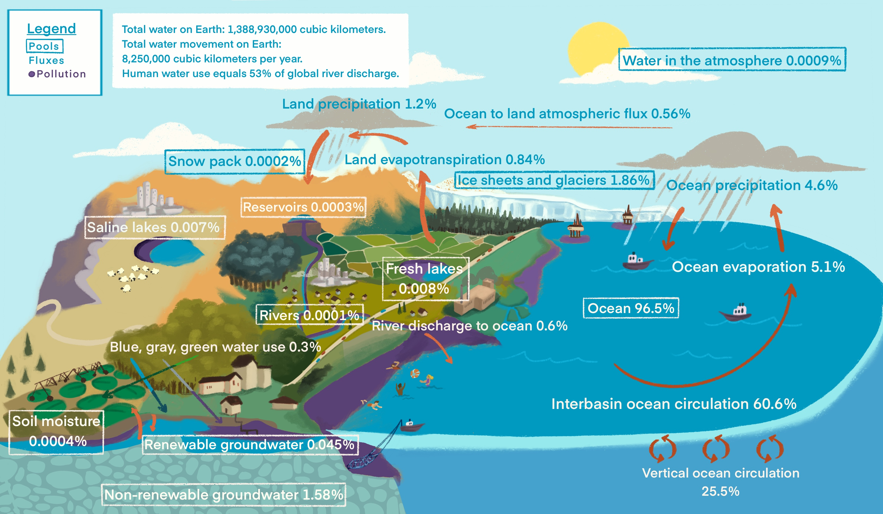 This is a more accurate depiction of the global human-integrated water cycle diagram.